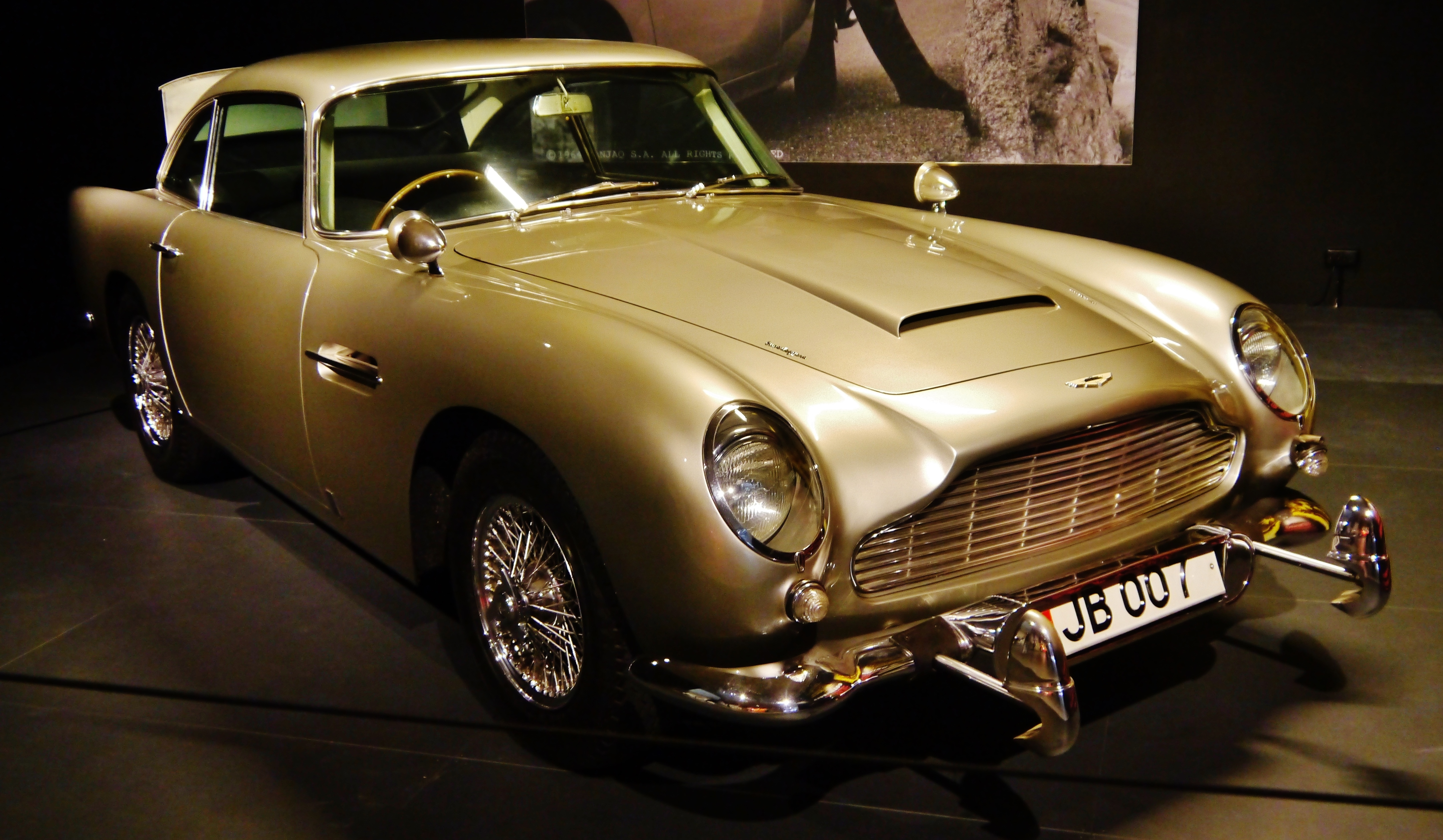 National Automobile Museum/Louwman Museum, The Hague, Province of South Holland, Netherlands